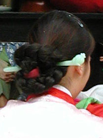 Korean traditional wedding being held at Korean Folk Village (Minsokchon) in Yongin, Gyeonggi-do, Korea